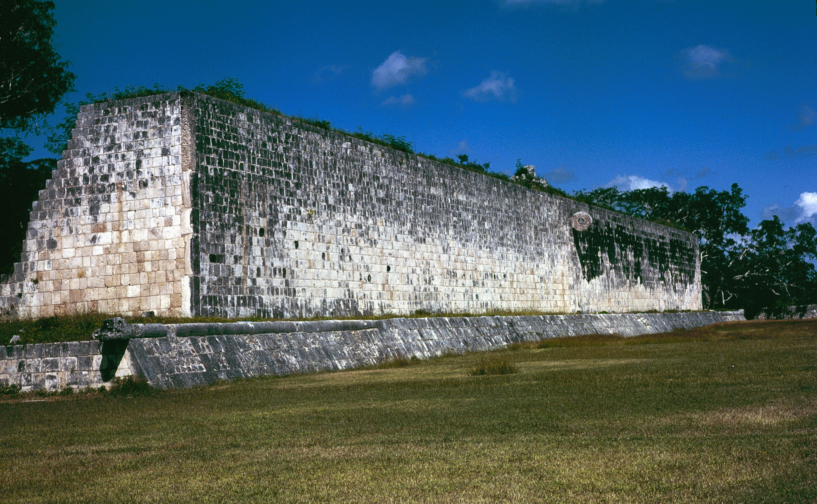 Chichen Itza, Yucatan, Mexico: Ballcourt, West side